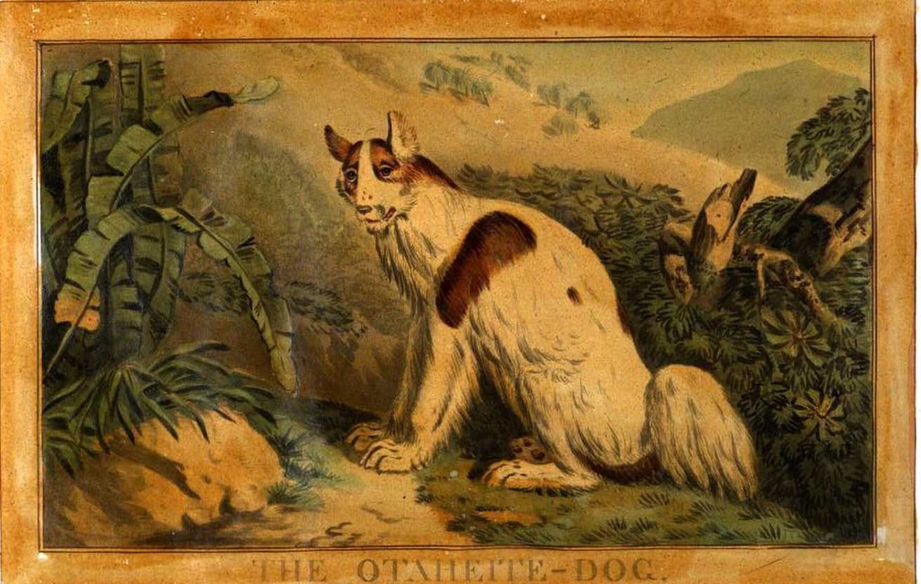 Illustration from Charles Catton the Younger Animals drawn from nature and engraved in aqua-tinta